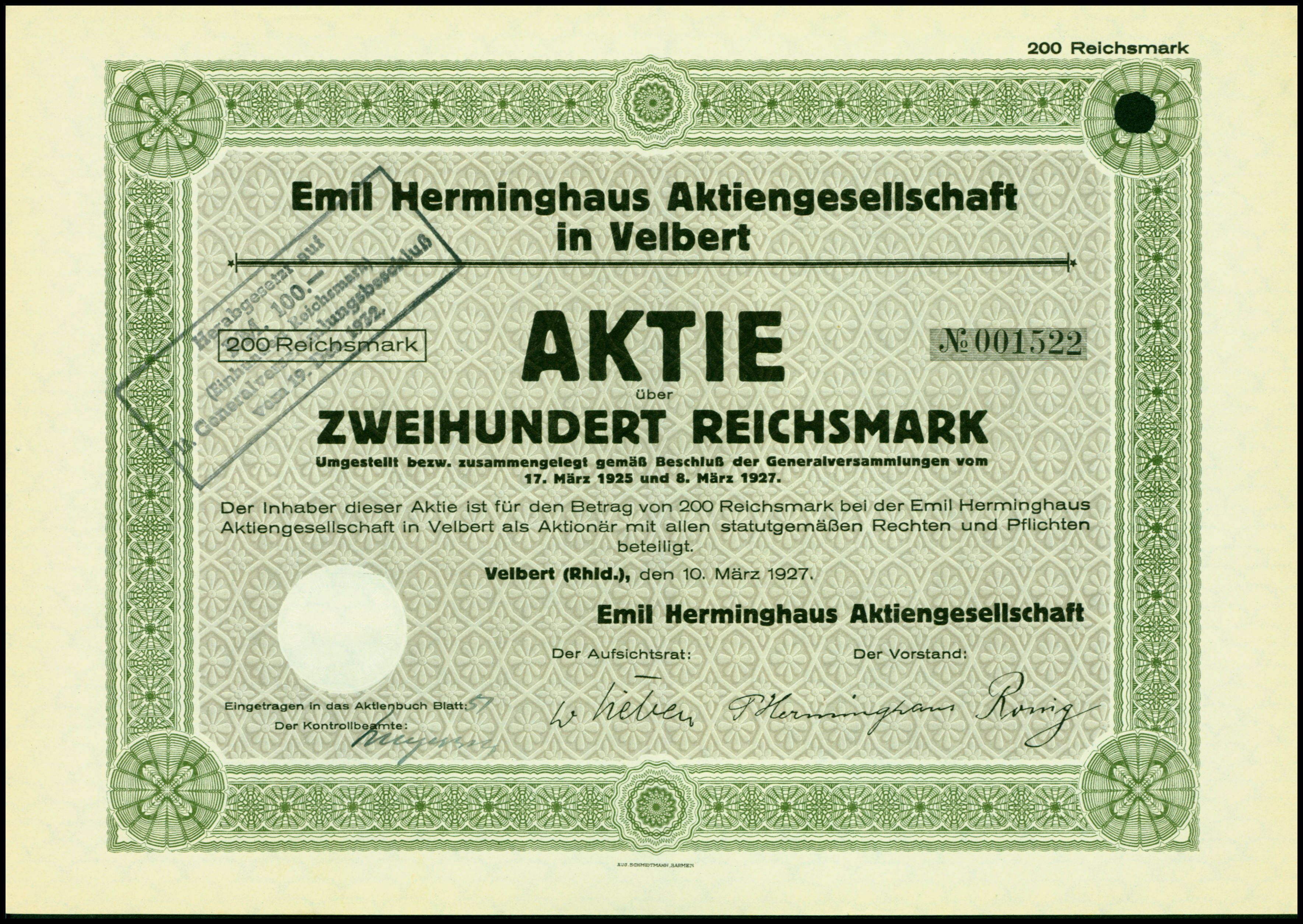 Share of the Emil Herminghaus AG, issued 10. March 1927